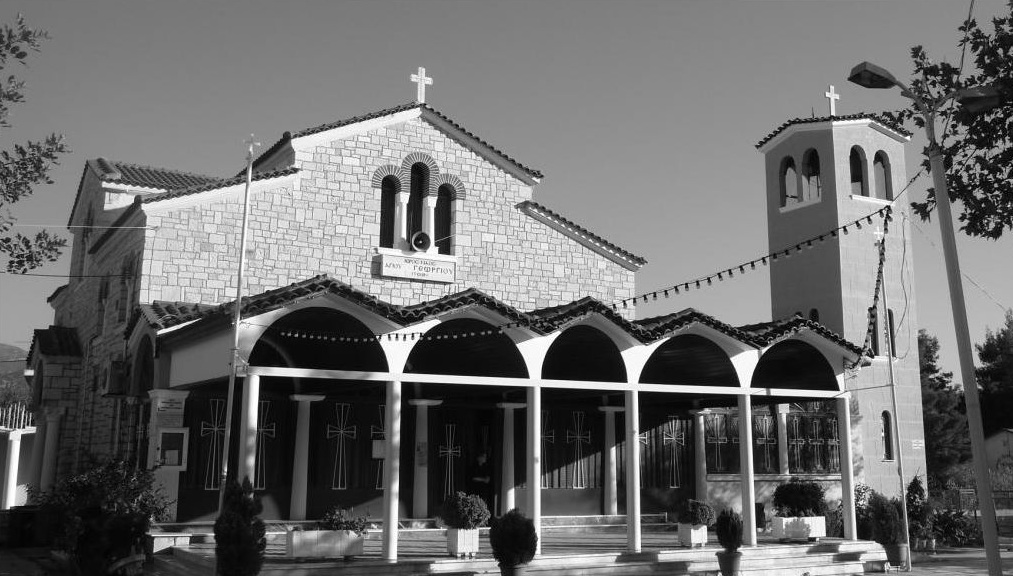 The Christian Orthdodox church dedidated to Saint George, in the neighborhood of Ities, Patras, Achaia, Greece. It is the Ities & Kokkinos Milos -neighborhoods of Patras- parish temple.